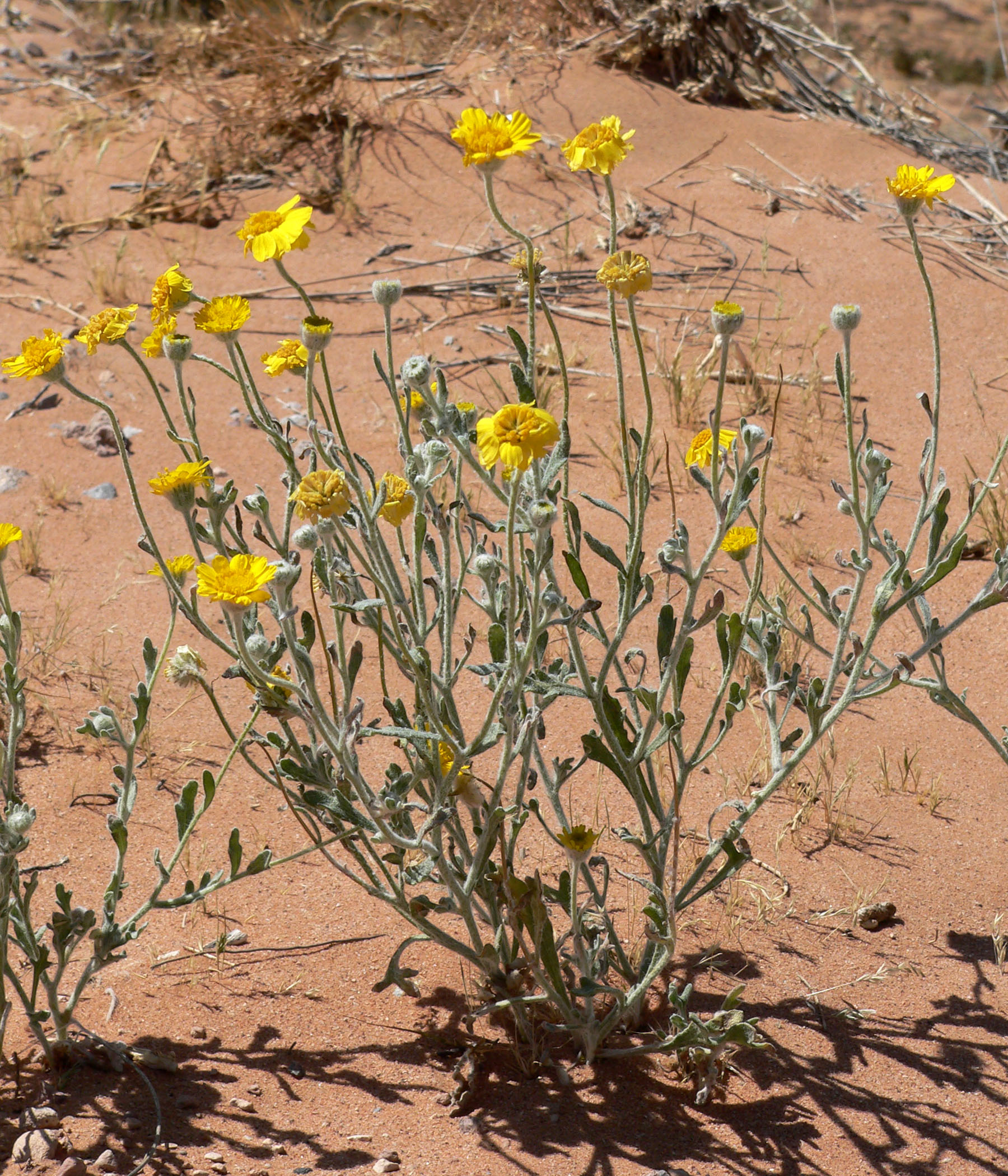 Baileya pleniradiata near the Carp-Elgin exit on Interstate 15 between Moapa and Mesquite, southern Nevada